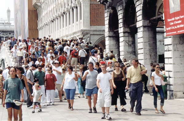 Heavy stream of tourists in Venice.